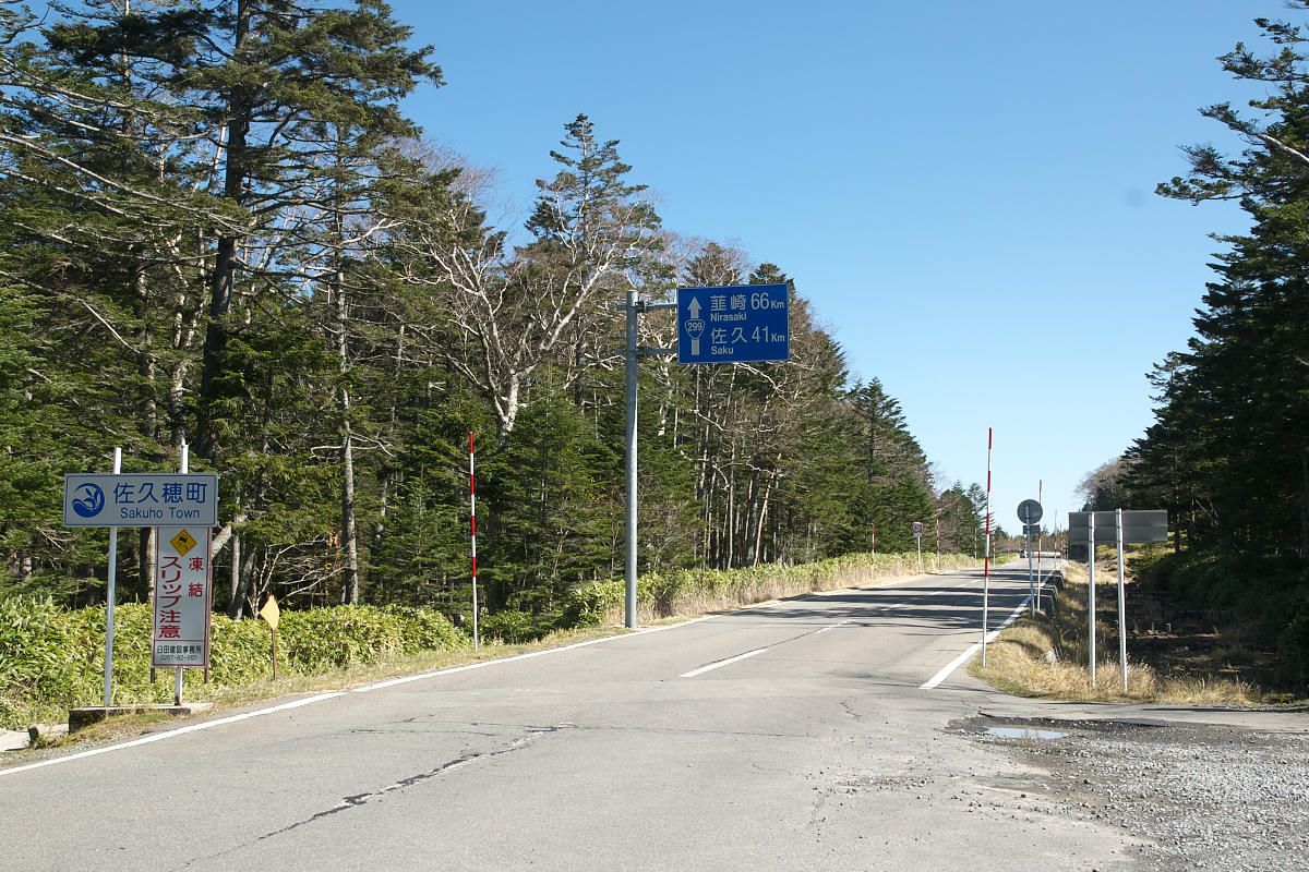 Mugikusa Pass, the highest point of Japanese National Route 299